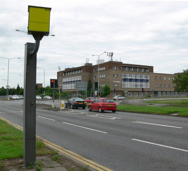 GE Lighting Ltd Large factory located at the corner of Troon Way and Melton Road.